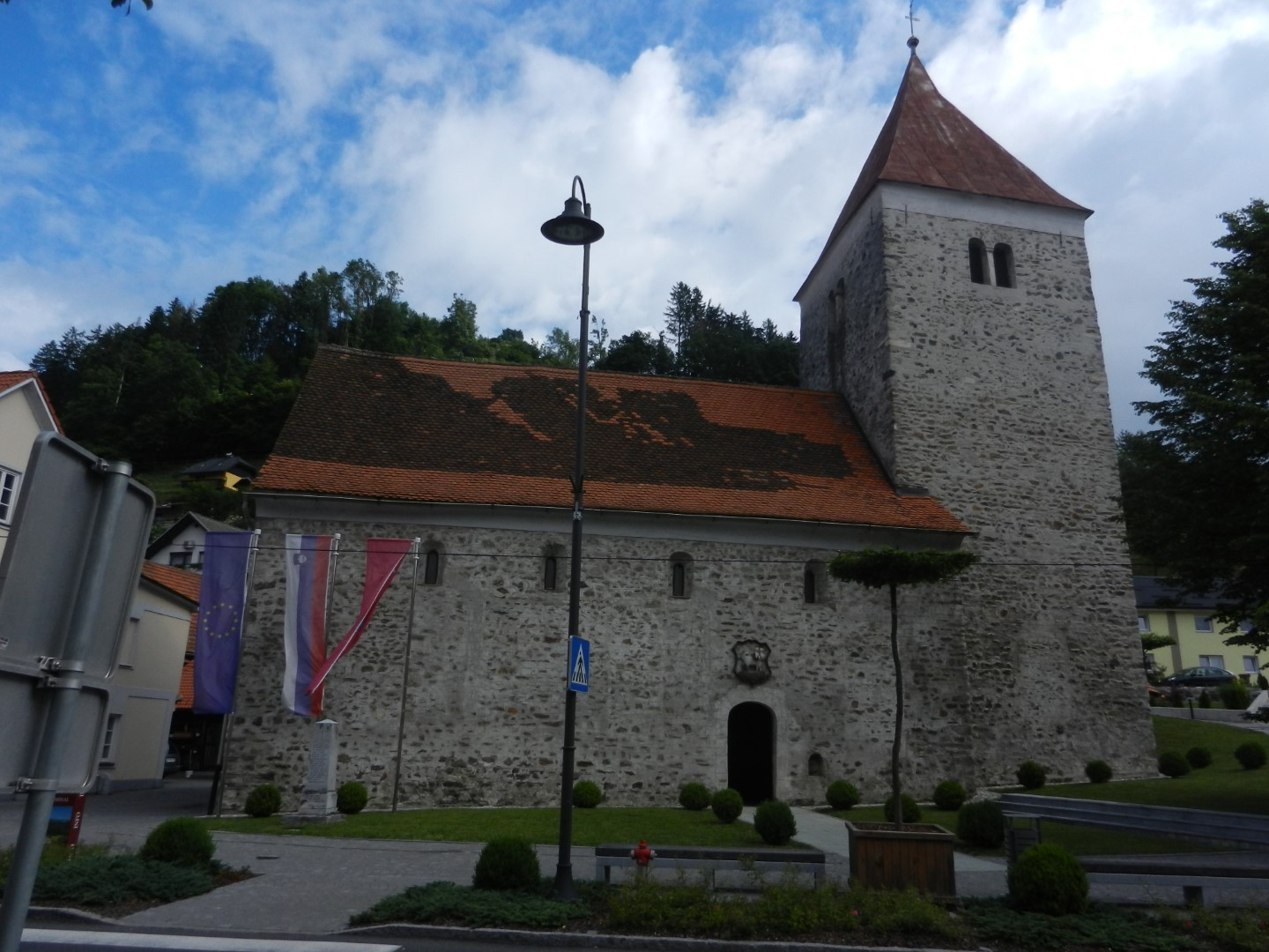 Church of St. Vid in Dravograd